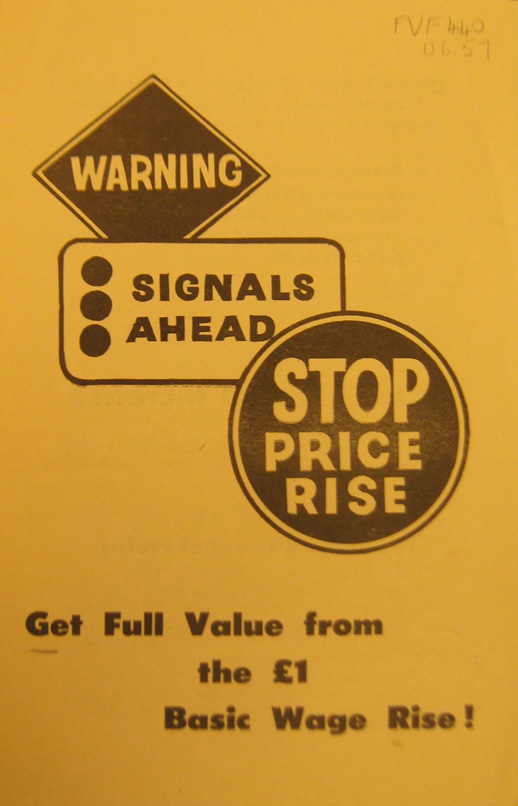 Public flyer from 1964 on increasing cost of living. U6.57, FVF440, Fryer Library, University of Queensland.